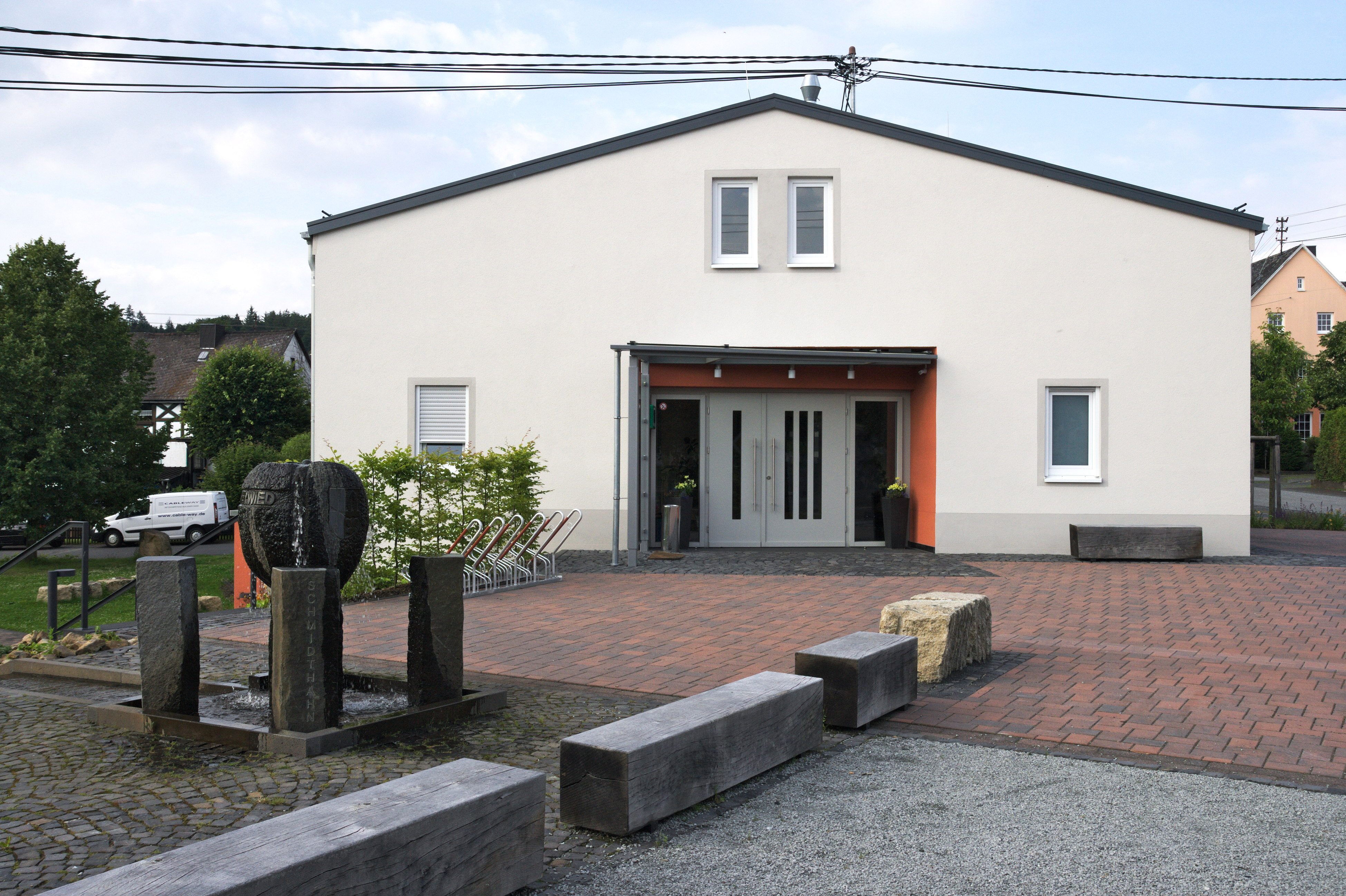 New village community house in Steinebach an der Wied municipality, Westerwald, Germany